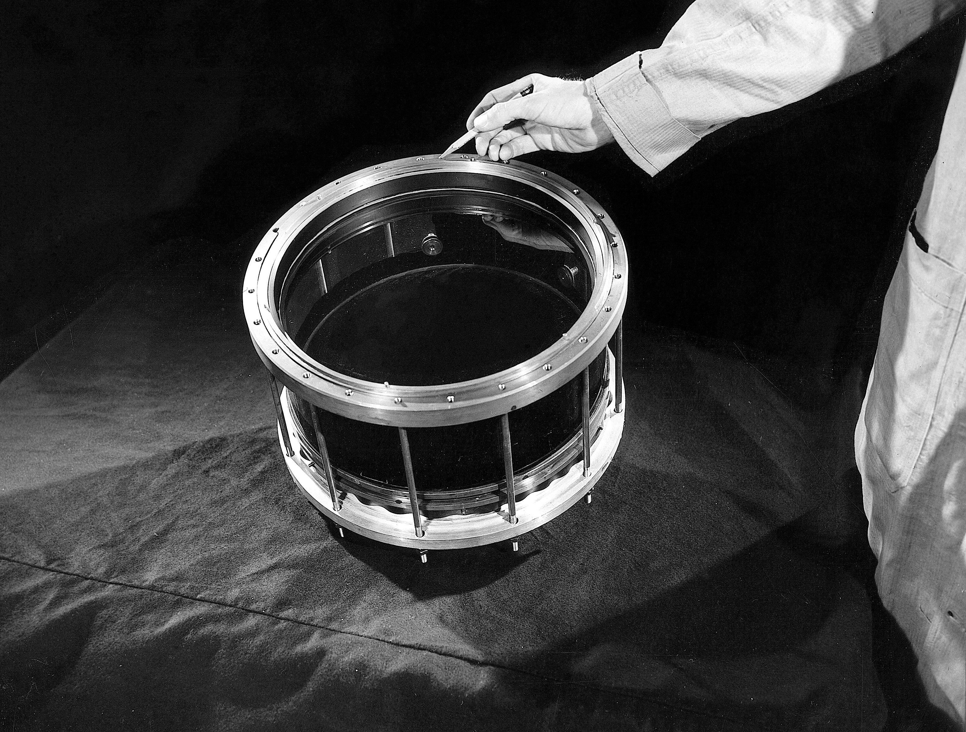 The Wilson Cloud Chamber at AEC's Brookhaven National Laboratory is used for cosmic ray studies.